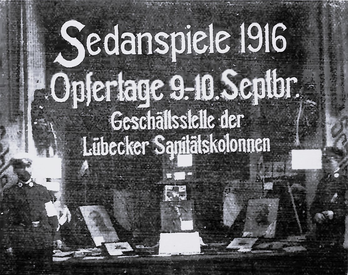 Games of Sedan, Victims days, 9.-10. September, office of the Lübecker Sanitätskolonne, The exhibited trophies of Sedan Festival